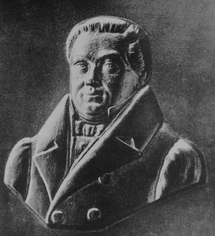 Heinrich Ludwig Lattermann (1776-1839)